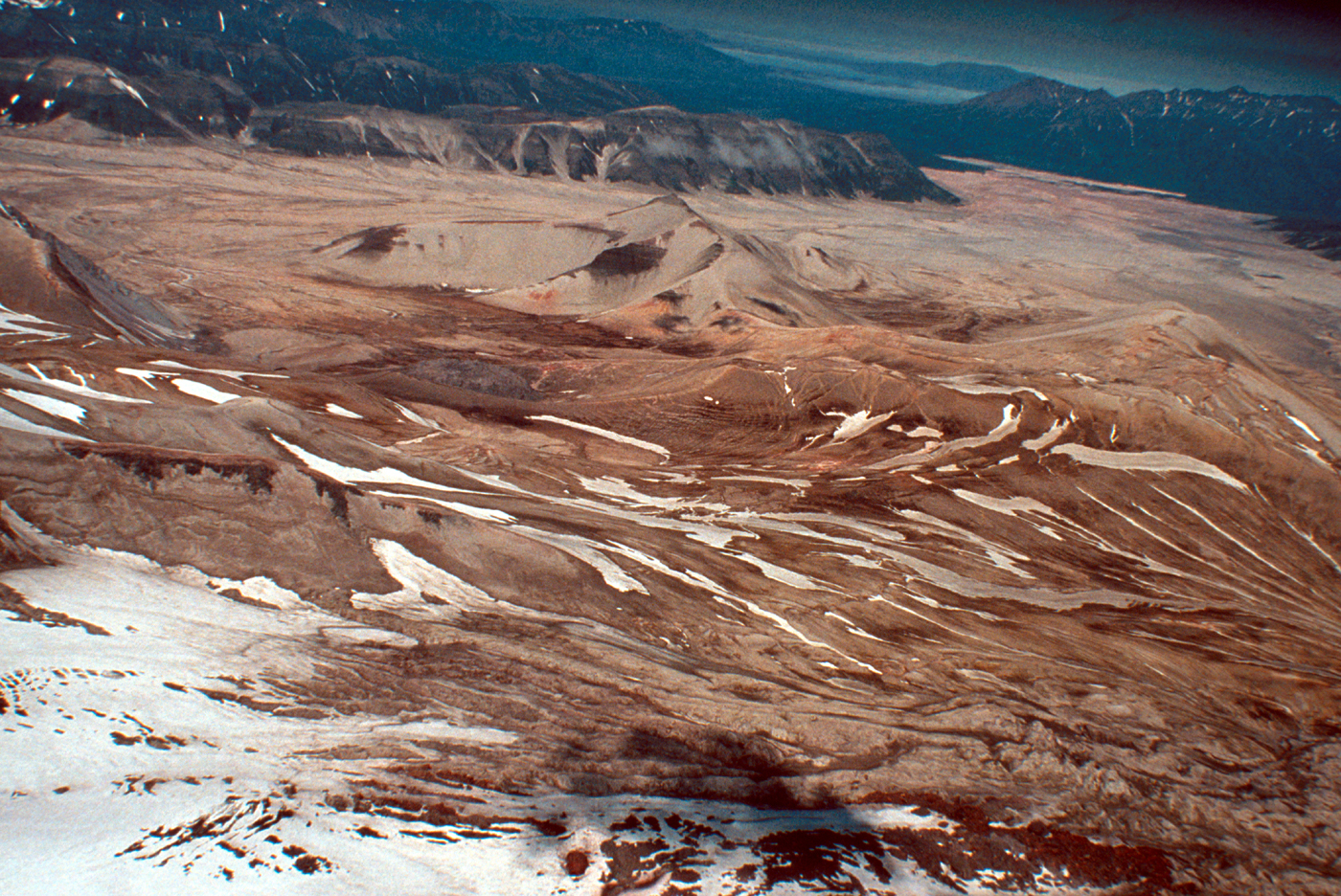 Katmai National Park and Preserve, Alaska. Novarupta lava dome (dark, rounded feature in center), viewed from Mount Katmai, which is surrounded by (clockwise from upper left) Falling Mountain, Baked Mountain, and Broken Mountain. The Valley of Ten Thousand Smokes, upper right, was created by the June 1912 eruption of Novarupta Volcano.